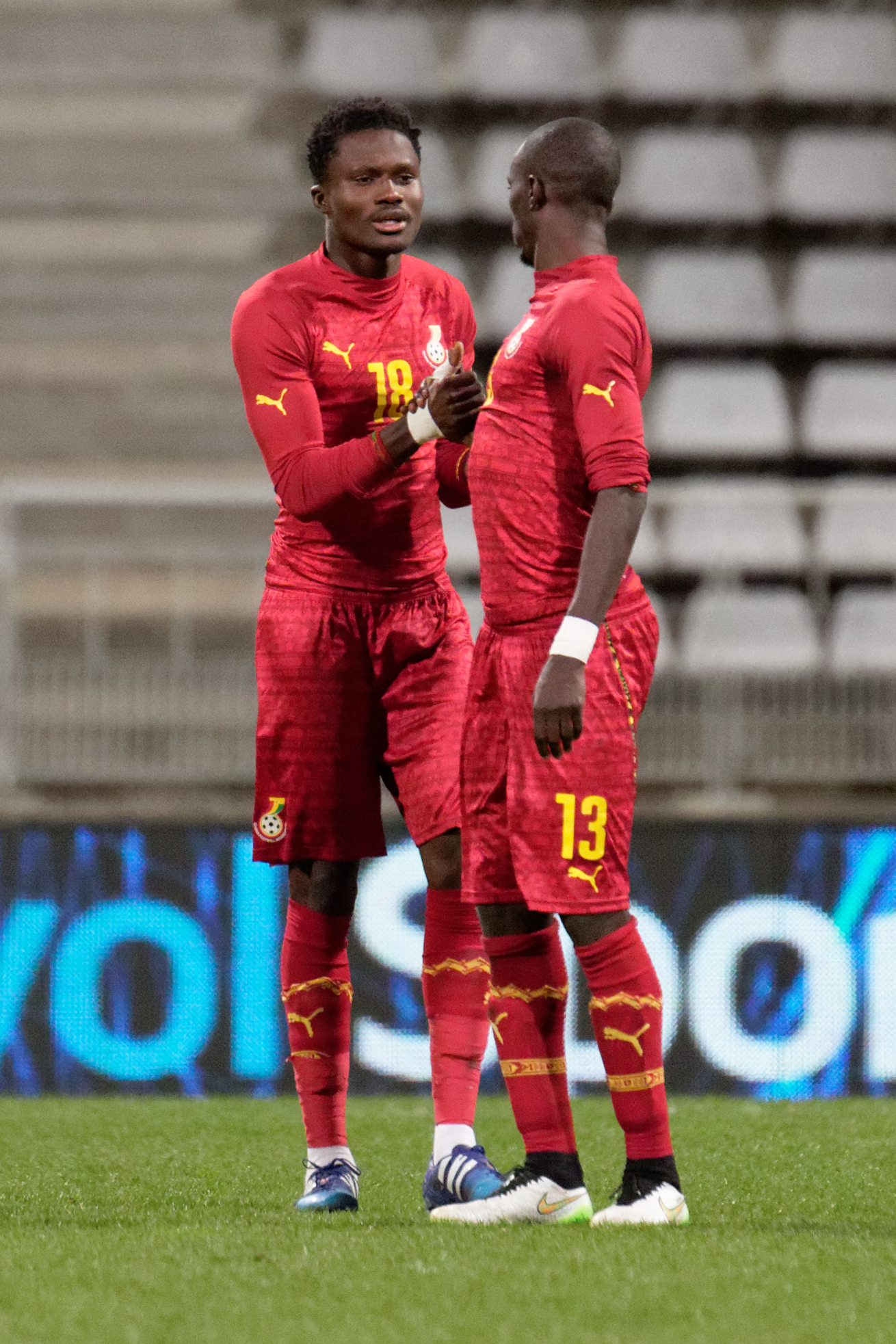 Mali vs Ghana, exhibition game at Paris, 31st March 2015.